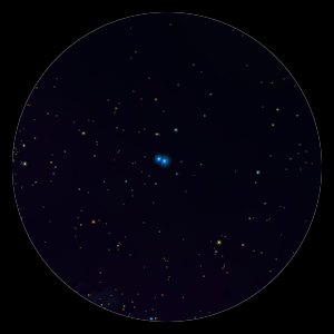 Mu Scorpii